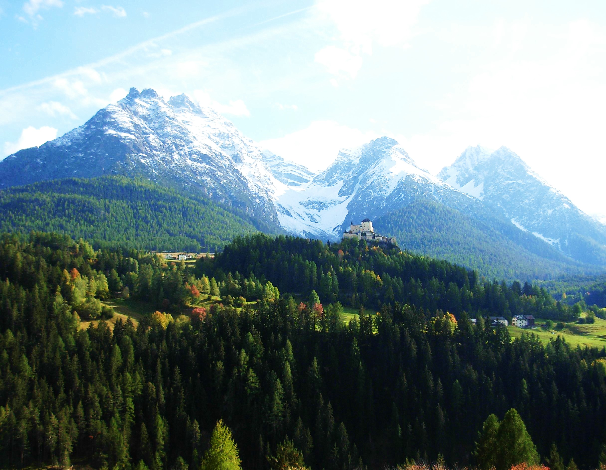 Tarasp castle, lower Engadin, Switzerland